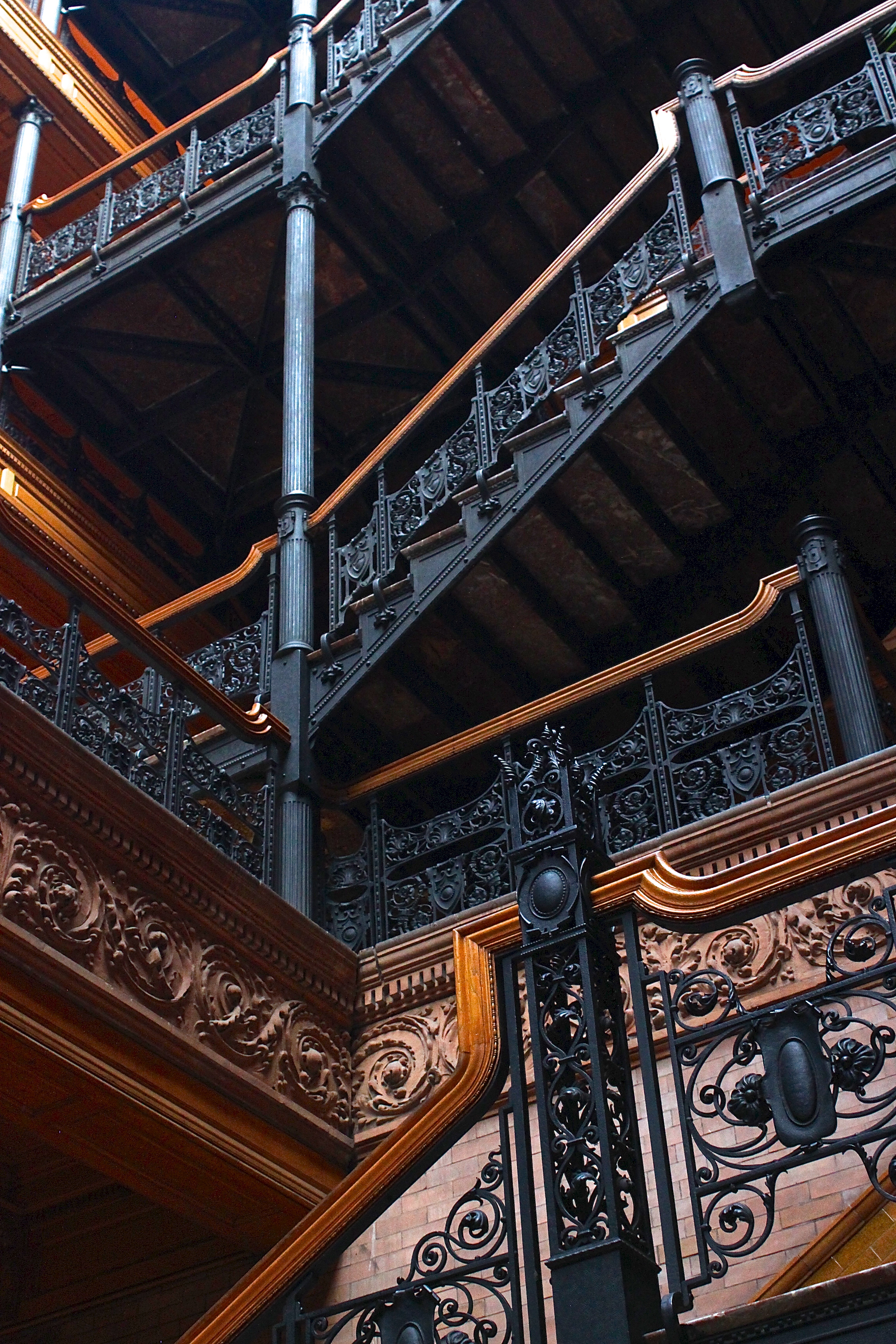 Bradbury Building, 304 S. Broadway Downtown Los Angeles